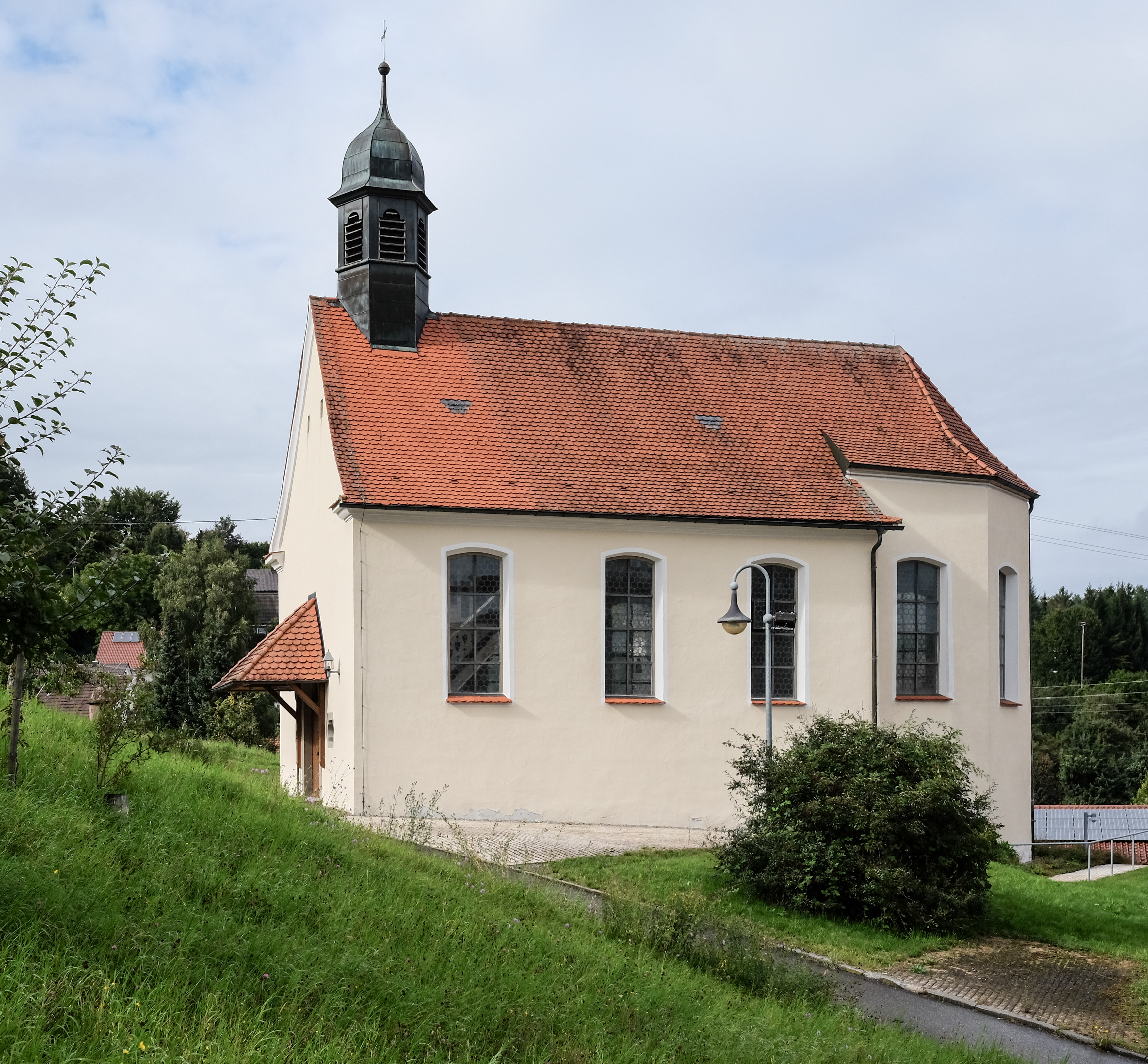 Church St. Kilian, Krauchenwies-Bittelschieß, district Sigmaringen, Baden-Württemberg, Germany